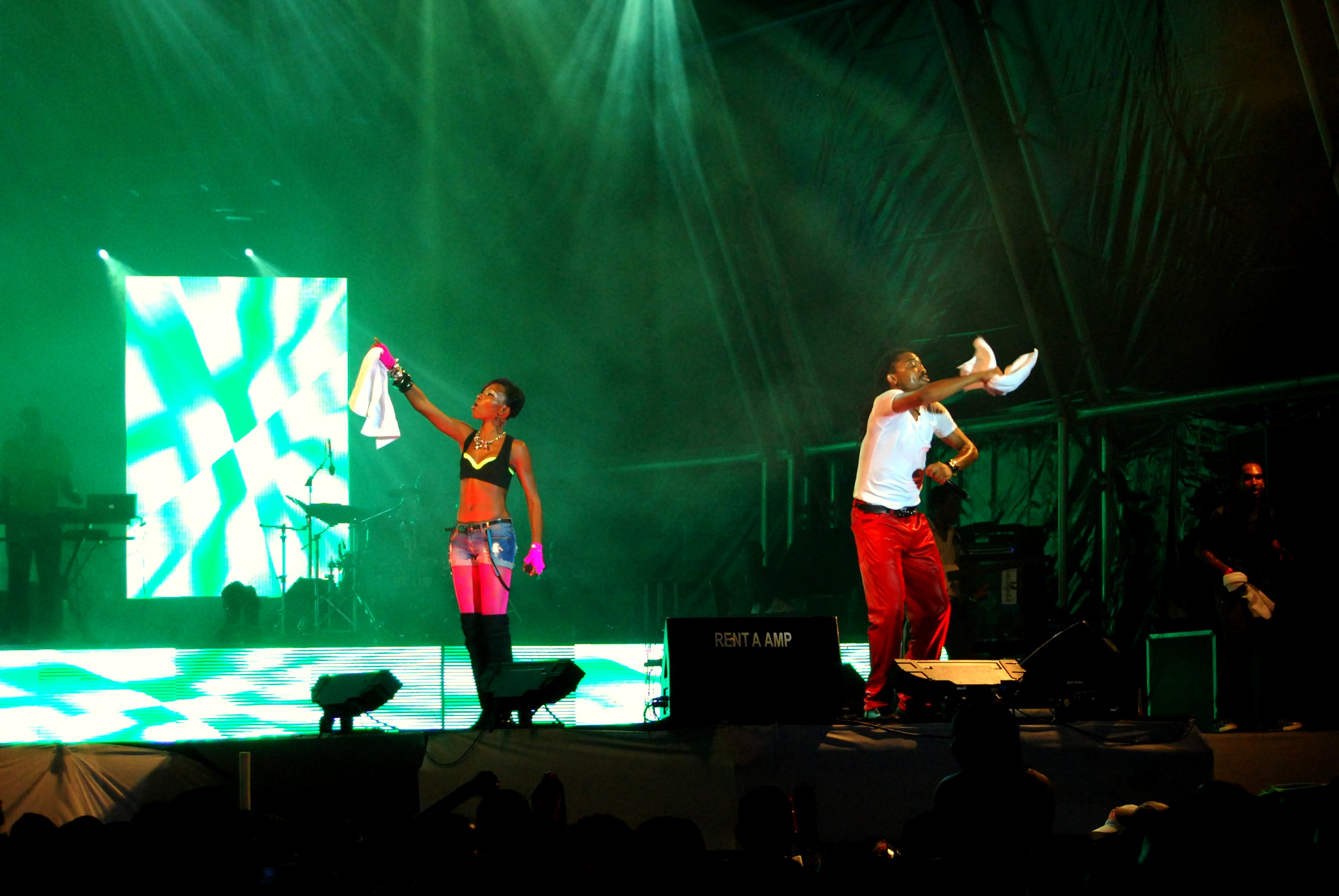 A photo of a man and woman on stage, facing away from each other, holding pieces of cloth.